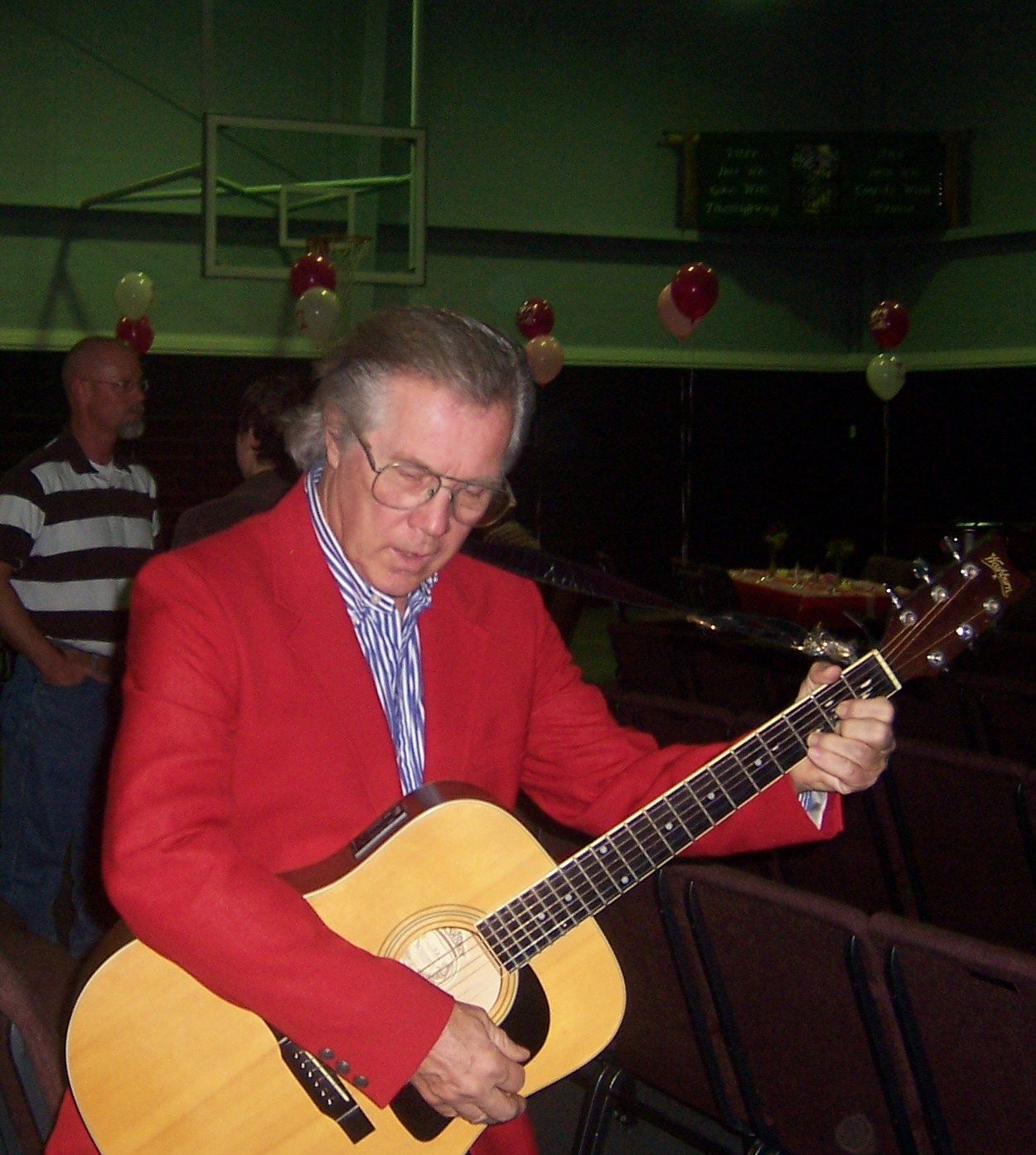 Photo of Terry Teene performing walkaround music at Trinity Baptist Church.